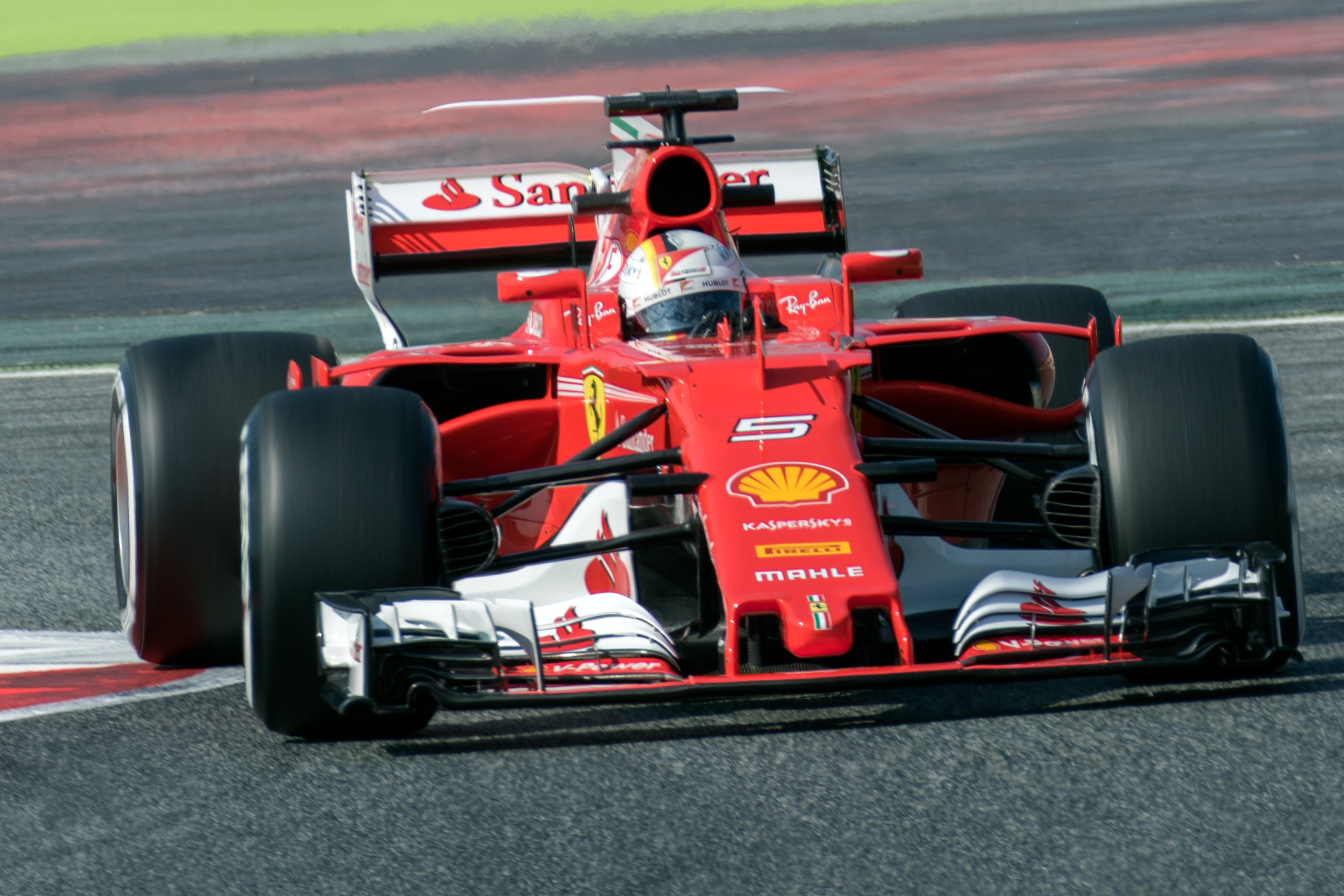 Formula One 2017 Catalonia test (27 February-2 March): Sebastian Vettel (Ferrari)